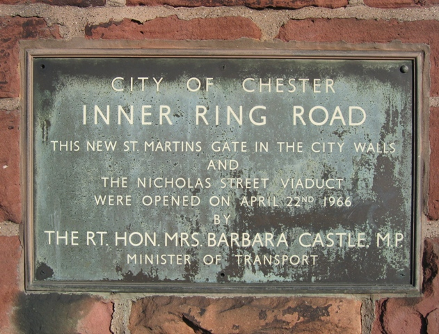 Commemorative Plaque at St Martin's Gate St Martin's Gate was a new opening created in the ancient city walls to allow the inner ring road to by-pass the city centre. This plaque commemorates the official opening on April 22nd 1966 by the Rt. Hon. Mrs. Barbara Castle M.P.